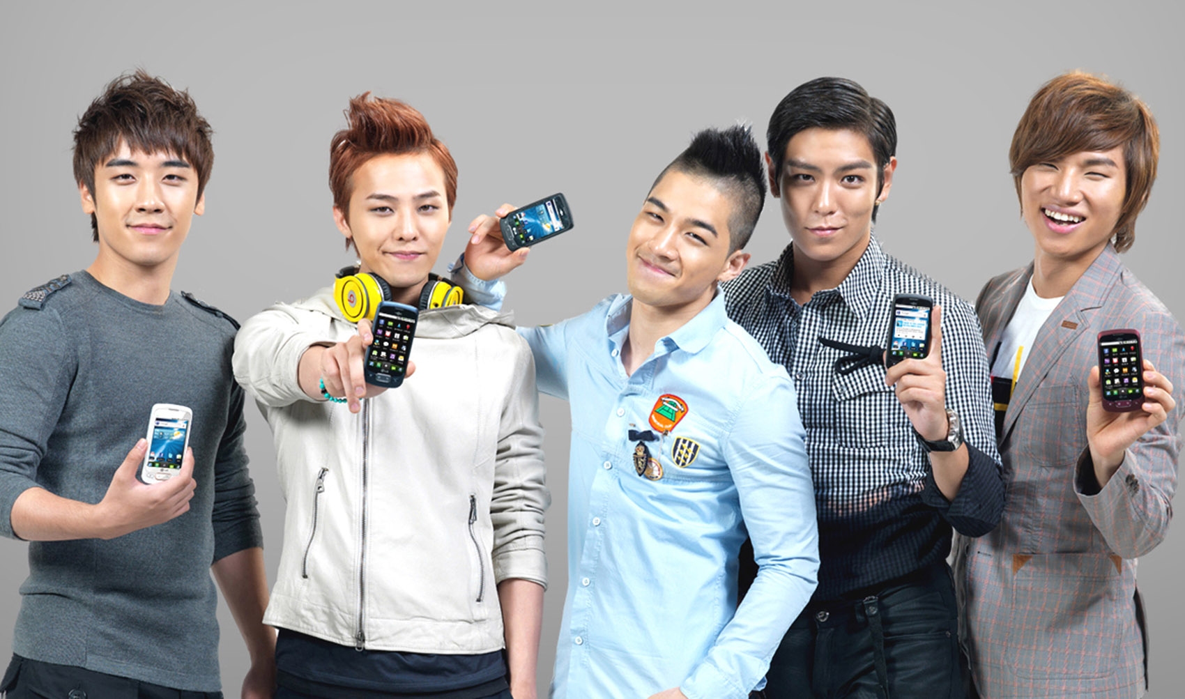 Big Bang in LG Optimus One advertisement